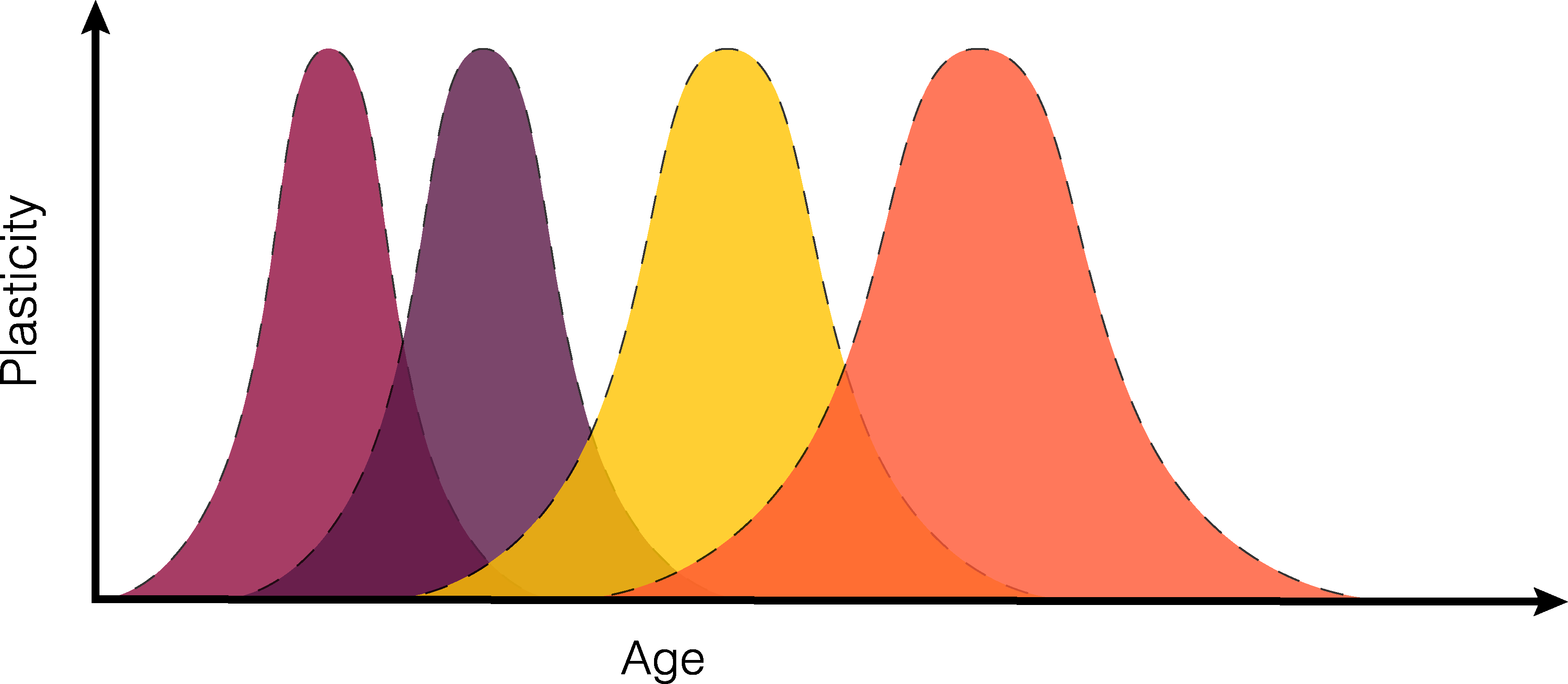 Critical Period Cartoon